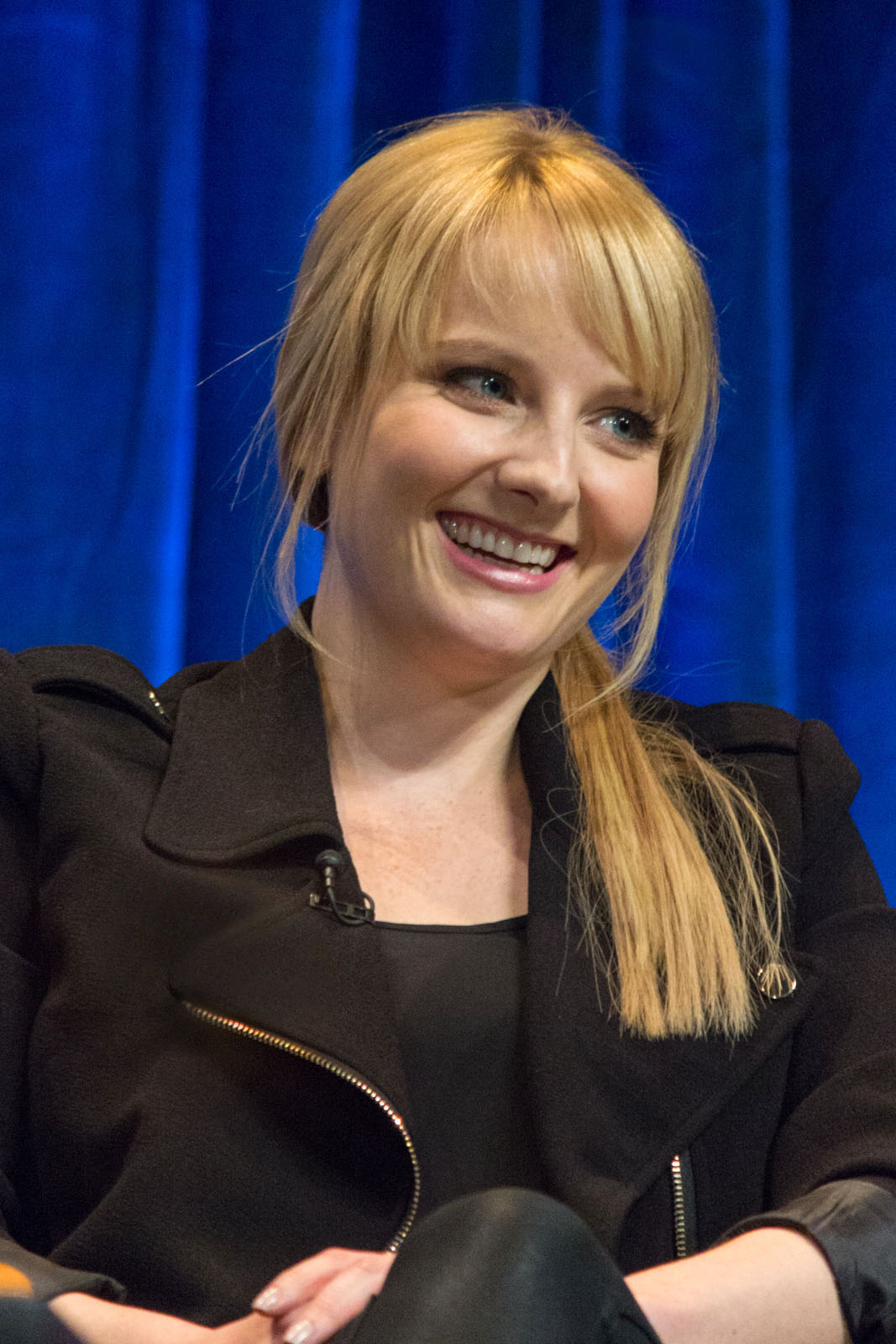 Melissa Rauch at PaleyFest 2013 for the TV show "Big Bang Theory".